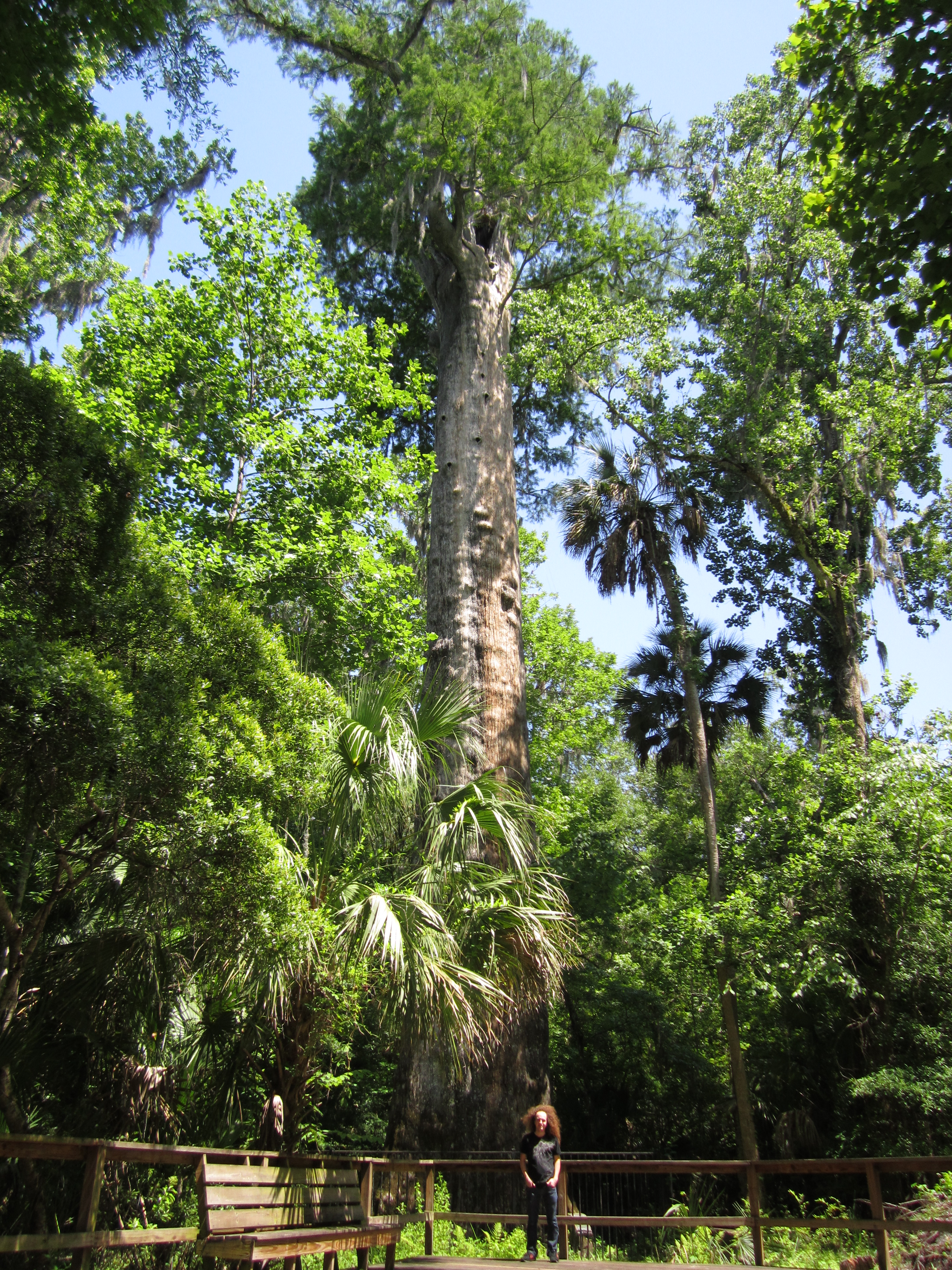 The Senator, a 3500 year old cypress tree at Big Tree Park in Longwood, Florida. An adult male stands fifteen feet in front of the tree's base to show size comparison. The tree is one of the world's oldest.